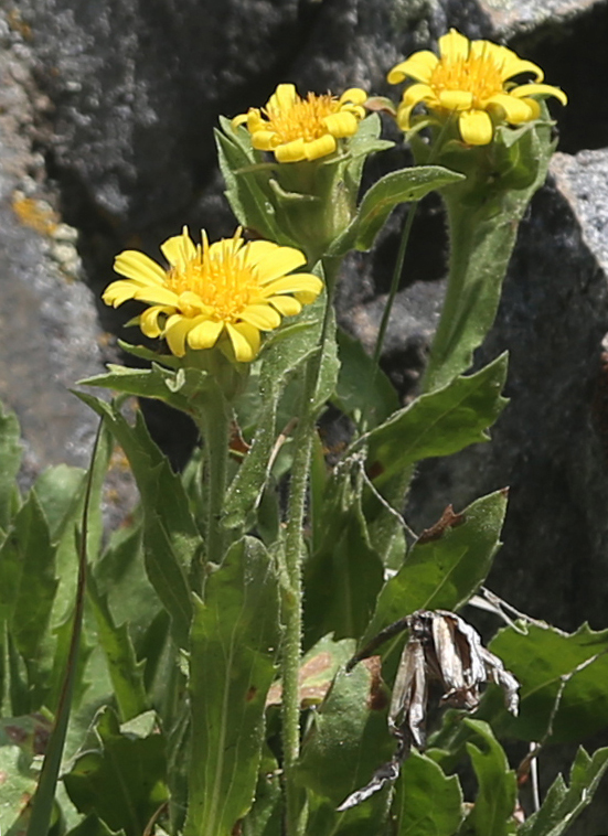 Inyo tonestus (Tonestus peirsonii), closeup of flower showing the short, curling, bright yellow ray flowers, a very large involucre below the flower with bracts that grade into small stem leaves, lower toothed leaves wider toward the end, and dried remnants of previous-year leaves. This is a local plant endemic to the mountains of Inyo and Fresno counties of California, in this case at 10,400 ft (3,200 m) tucked into the cliffs above Long Lake, Little Lakes Valley, John Muir Wilderness, Sierra Nevada USA.